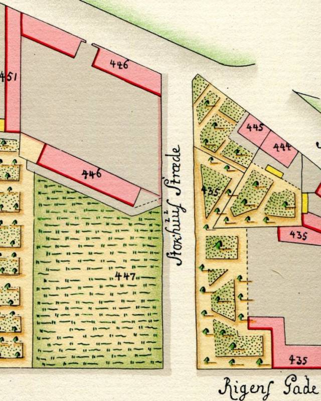 Stokhusstræde - now Stokhusgade - se4en on a detail from Gedde's district map of Copenhagen, Denmark